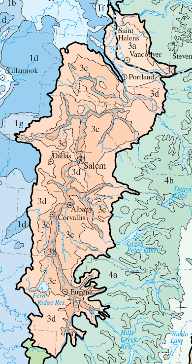 Level IV ecoregions in the Willamette Valley ecoregion, as defined by the EPA. This map is a draft and may now be slightly outdated. For more information about these ecoregions, see [1]